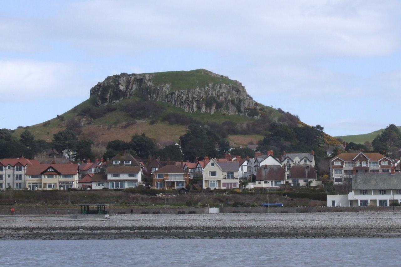 Deganwy from across Afon Conwy with the hill-top site of Deganwy Castle in the background.